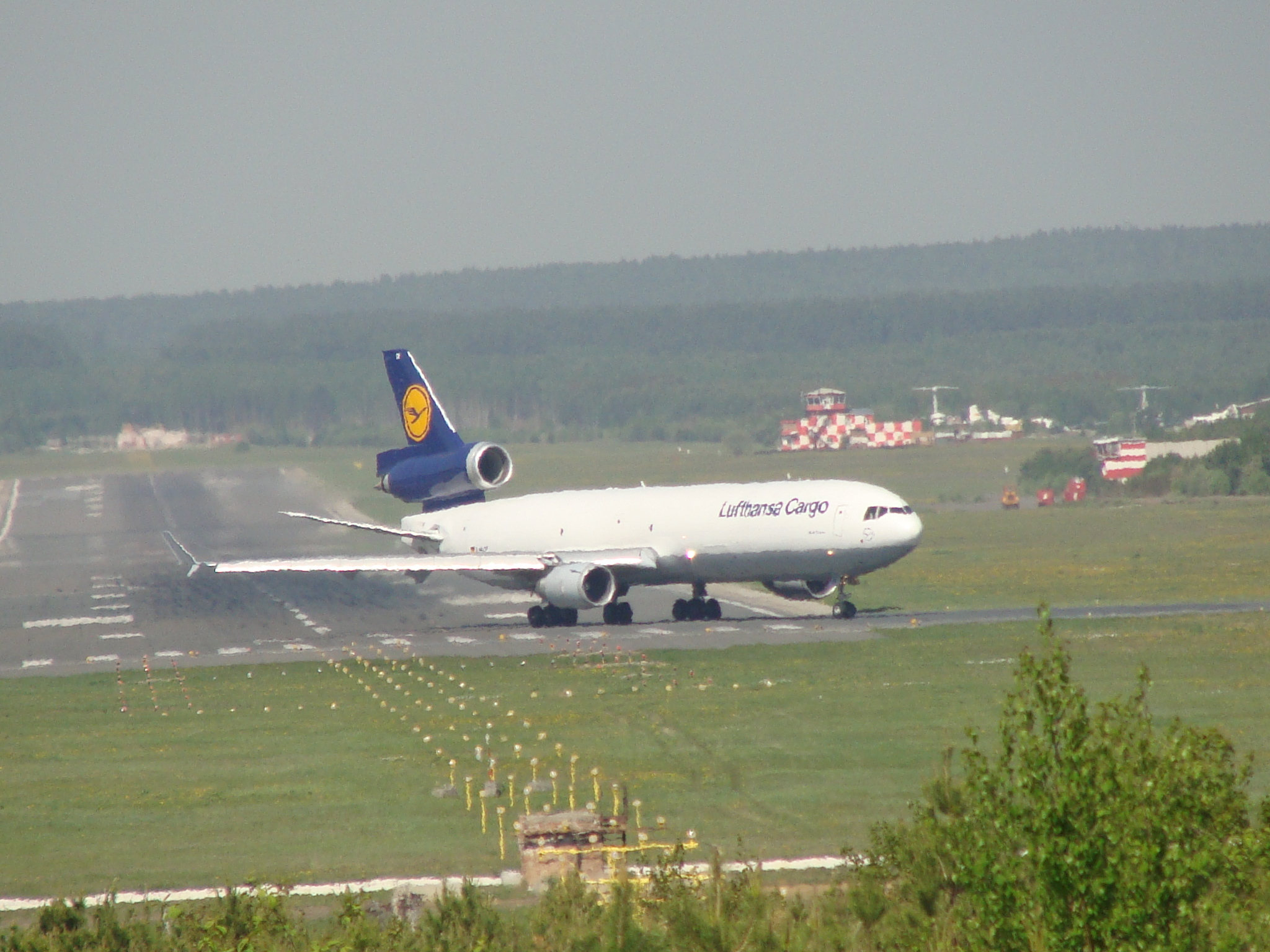 MD-11 is taxiing at rwy 29L for take off